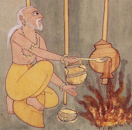 The Wedding of Satyabhama and Krishna from Bhagavata Purana : It's from Alvin Bellak collection of Indian masterpiece paintings, "The Wedding of Satyabhama and Krishna". This page from a dispersed series of the Bhagavata Purana was painted in Rajasthan, probably in Bikaner, c. 1590-1600. The piece is done in opaque watercolor and gold on paper.